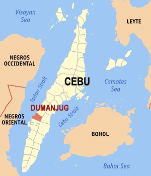 Map of Cebu showing the location of Dumanjug